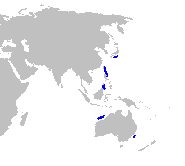 Distribution map for Squaliolus aliae